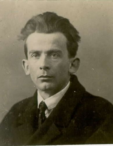 Josip Vidmar (October 14, 1895 -April 11, 1992) was a prominent Slovenian literary critic and essayist. Vidmar is remembered because of his role in the Slovenian resistance during World War II, and for his influence in the cultural policies of the Titoist regime in Slovenia from the mid 1950s to the mid 1970s.